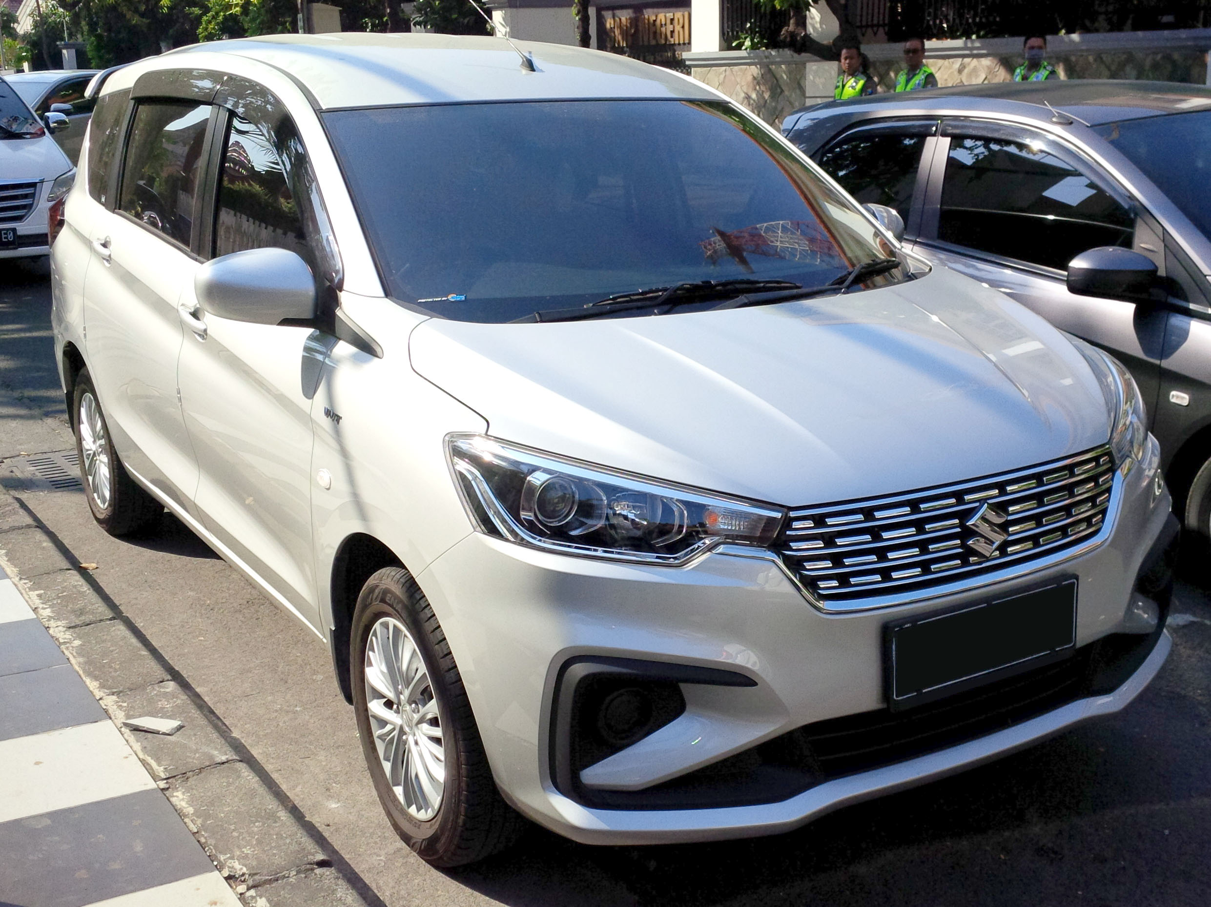 2019 Suzuki Ertiga GL photographed in Central Surabaya, East Java, Indonesia.